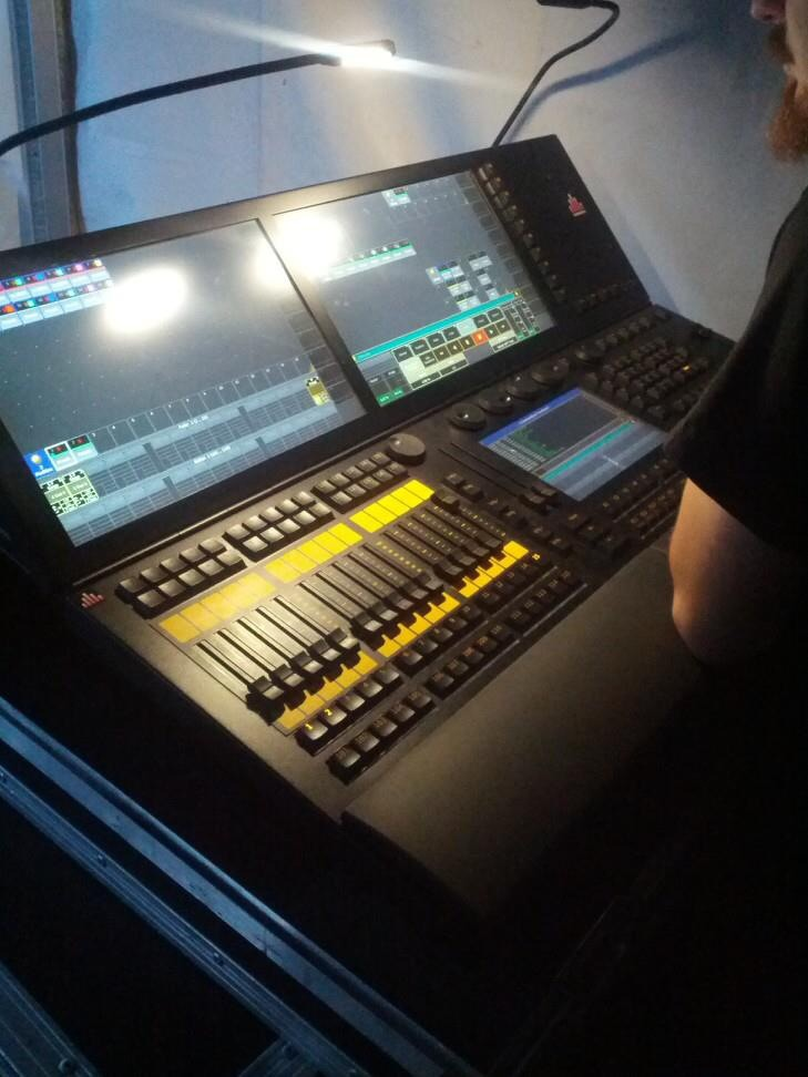 MA lighting desk type Grand MA 2